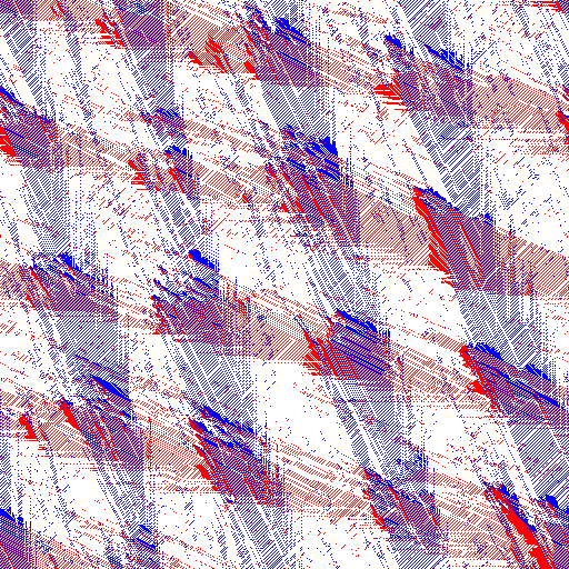 A lattice for the Biham-Middleton-Levine traffic model after 64000 iterations. The lattice is 512 by 512, with a traffic density of 31%. The red cars and blue cars take turns to move; the red ones only move rightwards, and the blue ones move downwards. Every time, all the cars of the same colour try to move one step if there is no car in front of it. The initial position before running is shown in File:Bml x 512 y 512 p 31 iterated 0.png. The graph of mobility versus time (mobility is the number of cars that can move in a particular turn) is shown at File:Bml x 512 y 512 p 31 MOBILITY.png. This was created with C++. Source code is located at user:Purpy Pupple/BML.